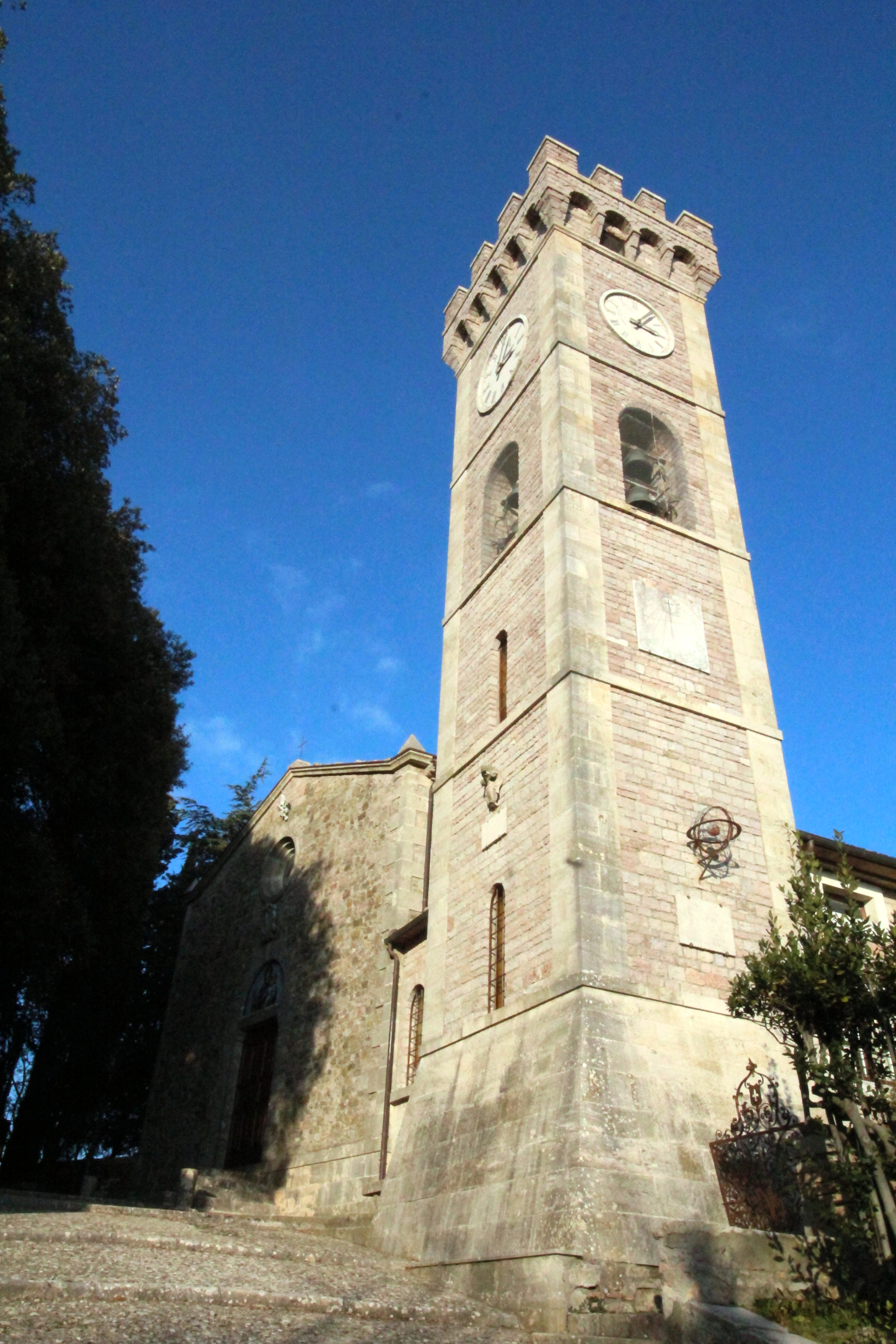 Church San Giovanni Battista, Camporsevoli, Village in the territory of Cetona, Monte Cetona, Province of Siena, Tuscany, Italy